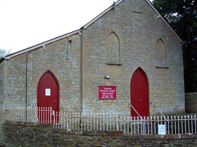 Souldern Wesleyan Reform chapel (originally a Methodist Reform chapel)